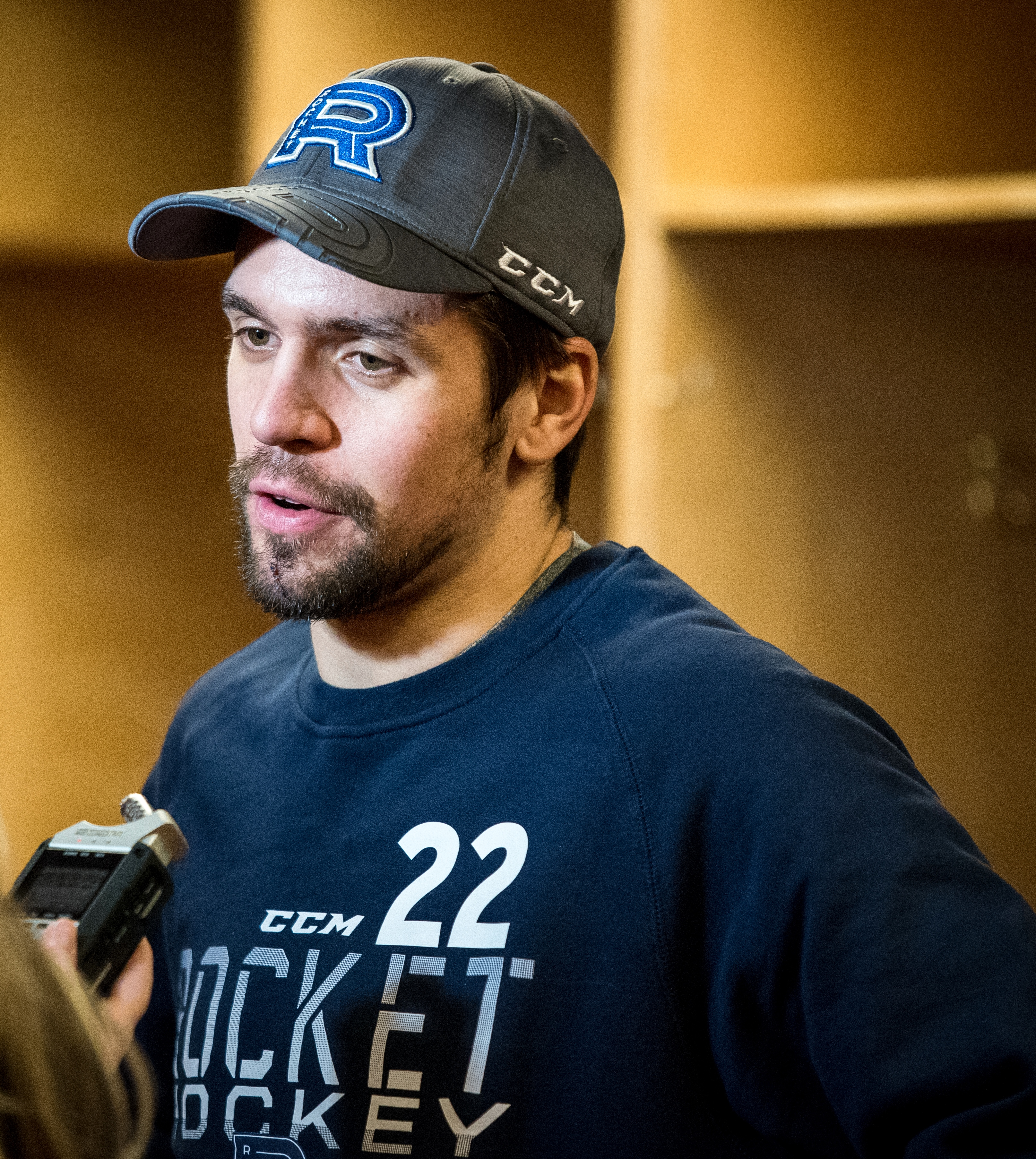 Photo by: China Wong